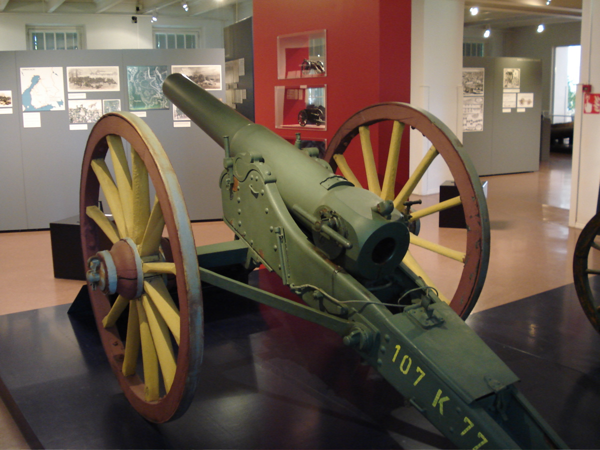 Russian 107 mm gun Model 1877, displayed in Finnish Artillery Museum. This particular gun was manufactured by German Krupp in 1878. Photo taken on June 18, 2006. Source: Photo by me, User:Balcer.